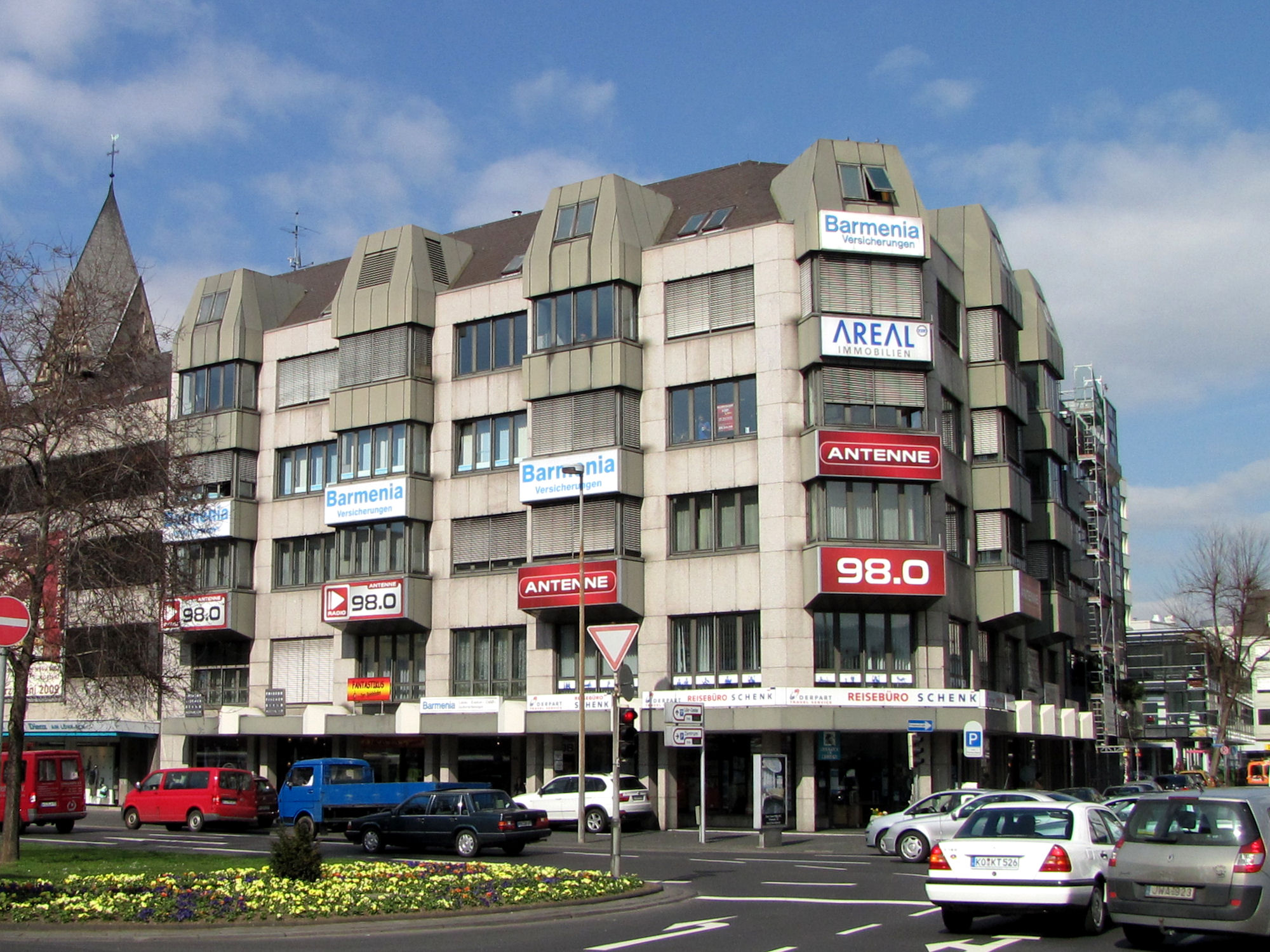 Broadcasting studios of „Antenne 98.0“ in Koblenz